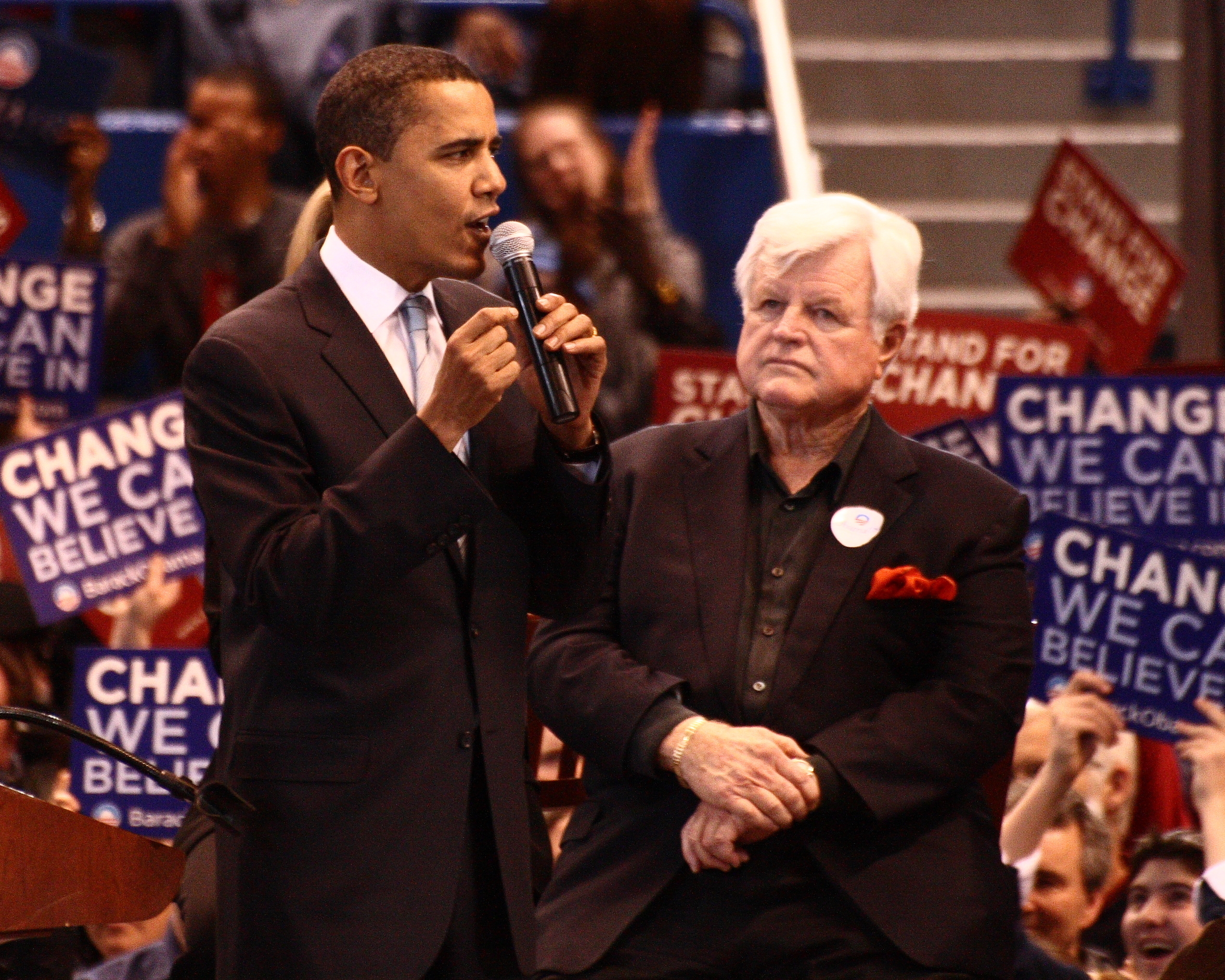 Democratic U.S. Presidential candidate Barack Obama on stage with Senator Ted Kennedy, at the XL Center in downtown Hartford, Connecticut